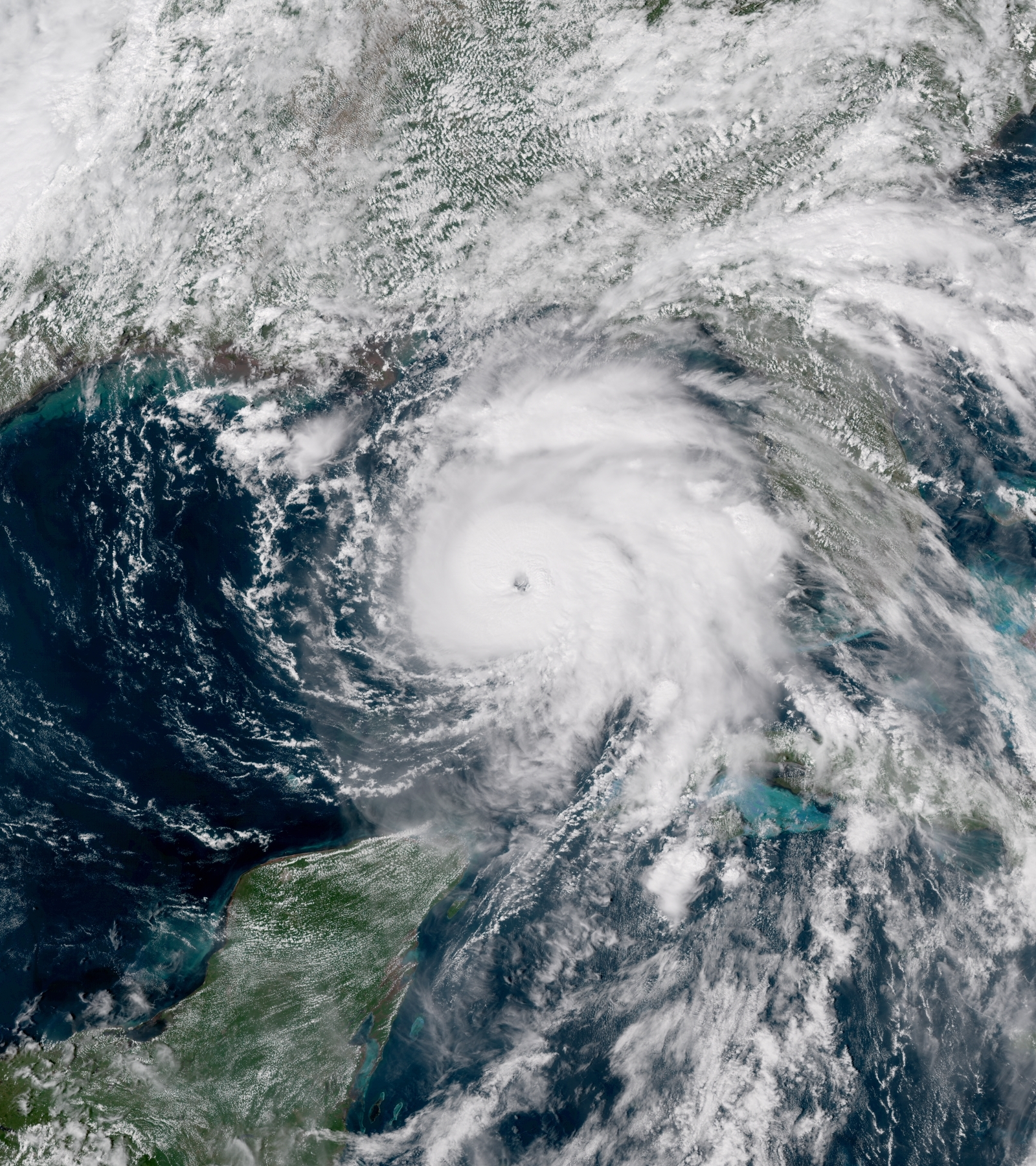 Hurricane Michael on October 9, 2018